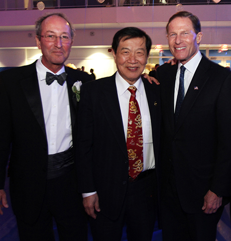 This is a photograph of University of New Haven (UNH) President Steven H. Kaplan with forensic scientist Dr. Henry C. Lee and Connecticut Senator Richard Blumenthal (D).